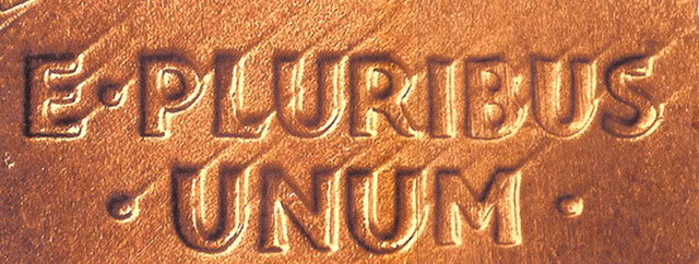 Trails